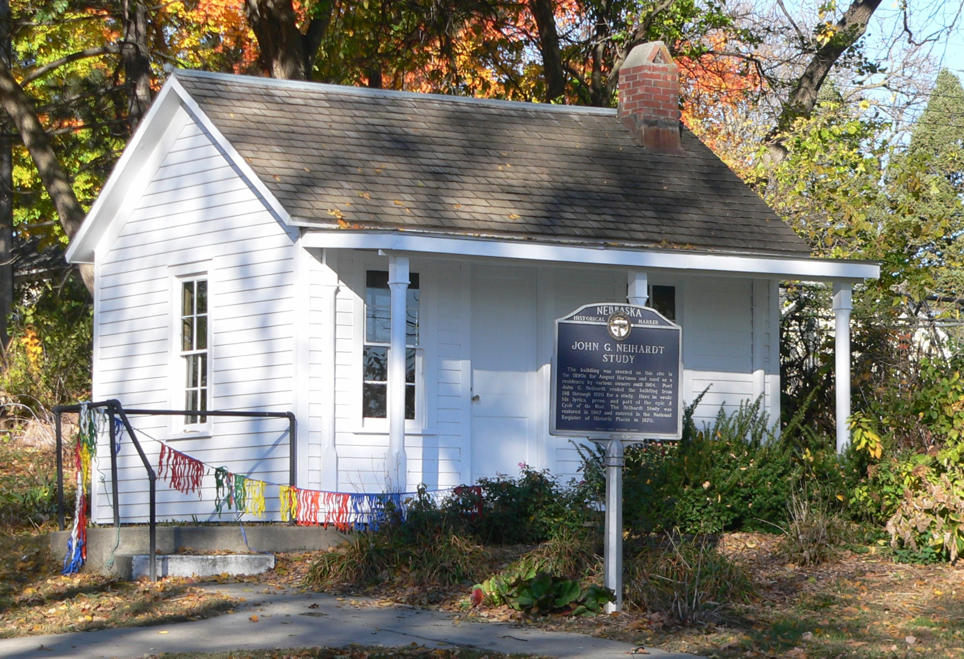 John G. Neihardt study at John G. Neihardt State Historic Site in Bancroft, Nebraska; seen from the southeast. The study is listed in the National Register of Historic Places.